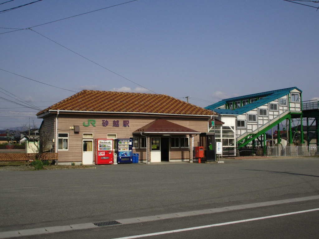 Sagoshi Station